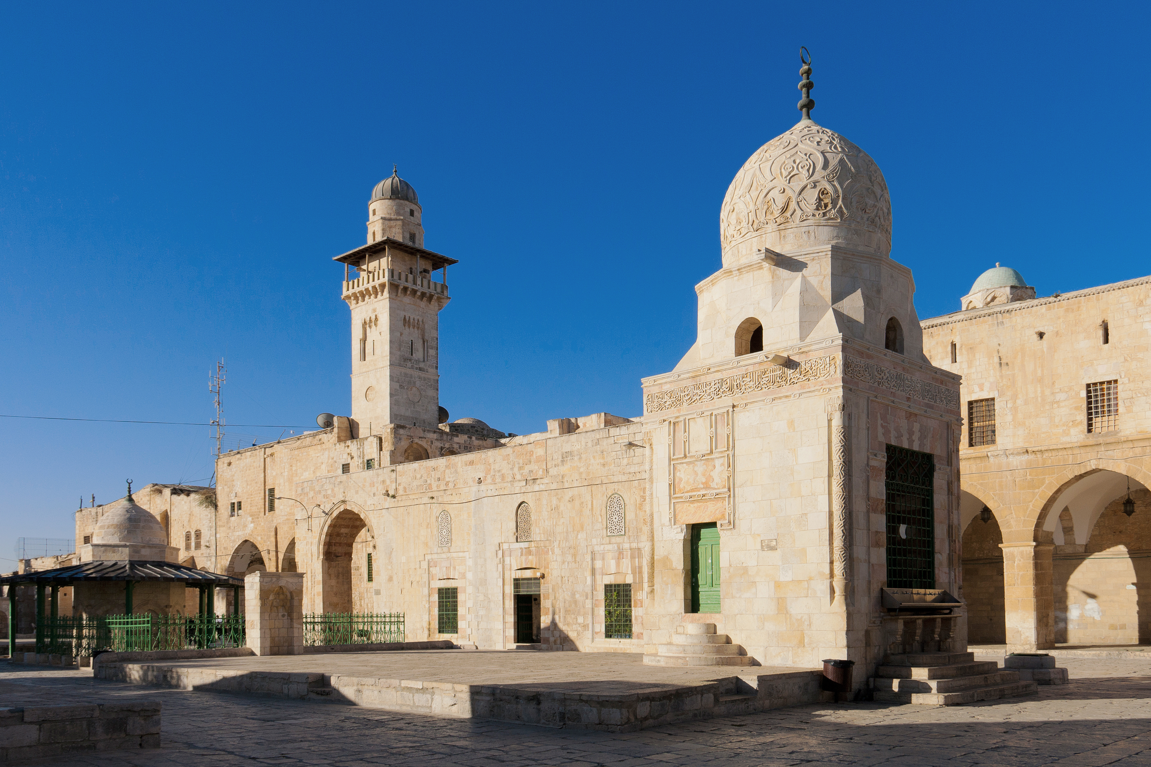 Madrasa al-Ashrafiyya, Temple Mount, Jerusalem, Israel